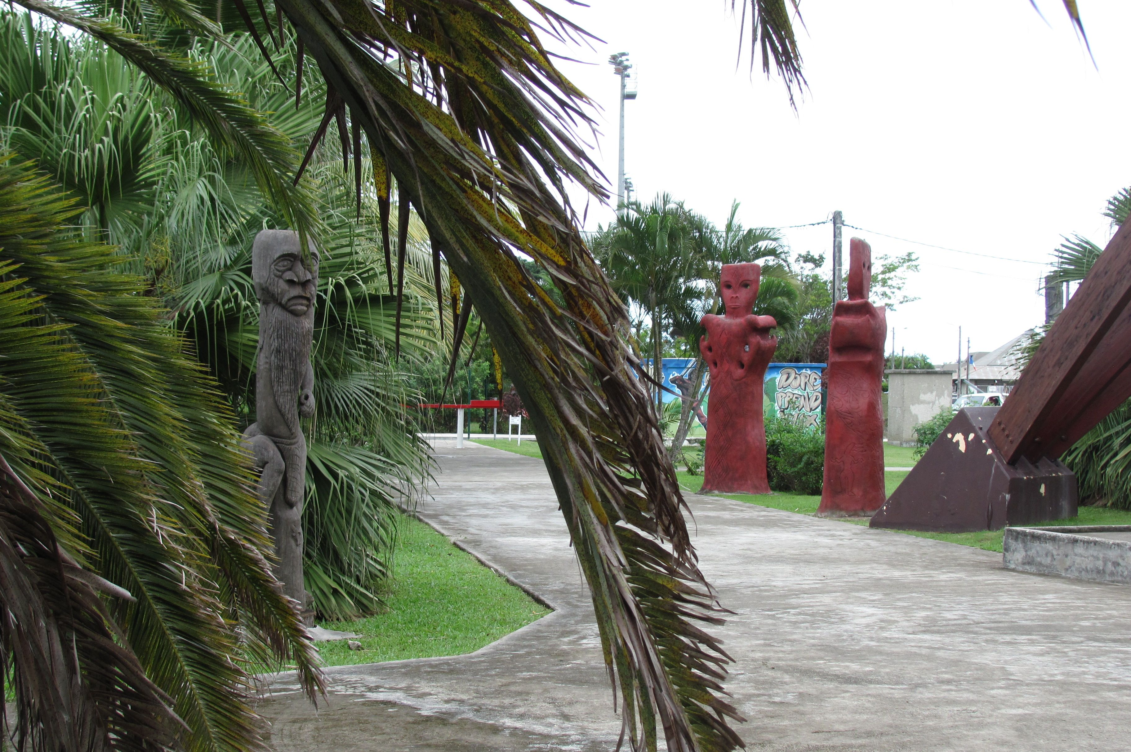 Park of the cultural centre, Le Mont-Dore, New Caledonia